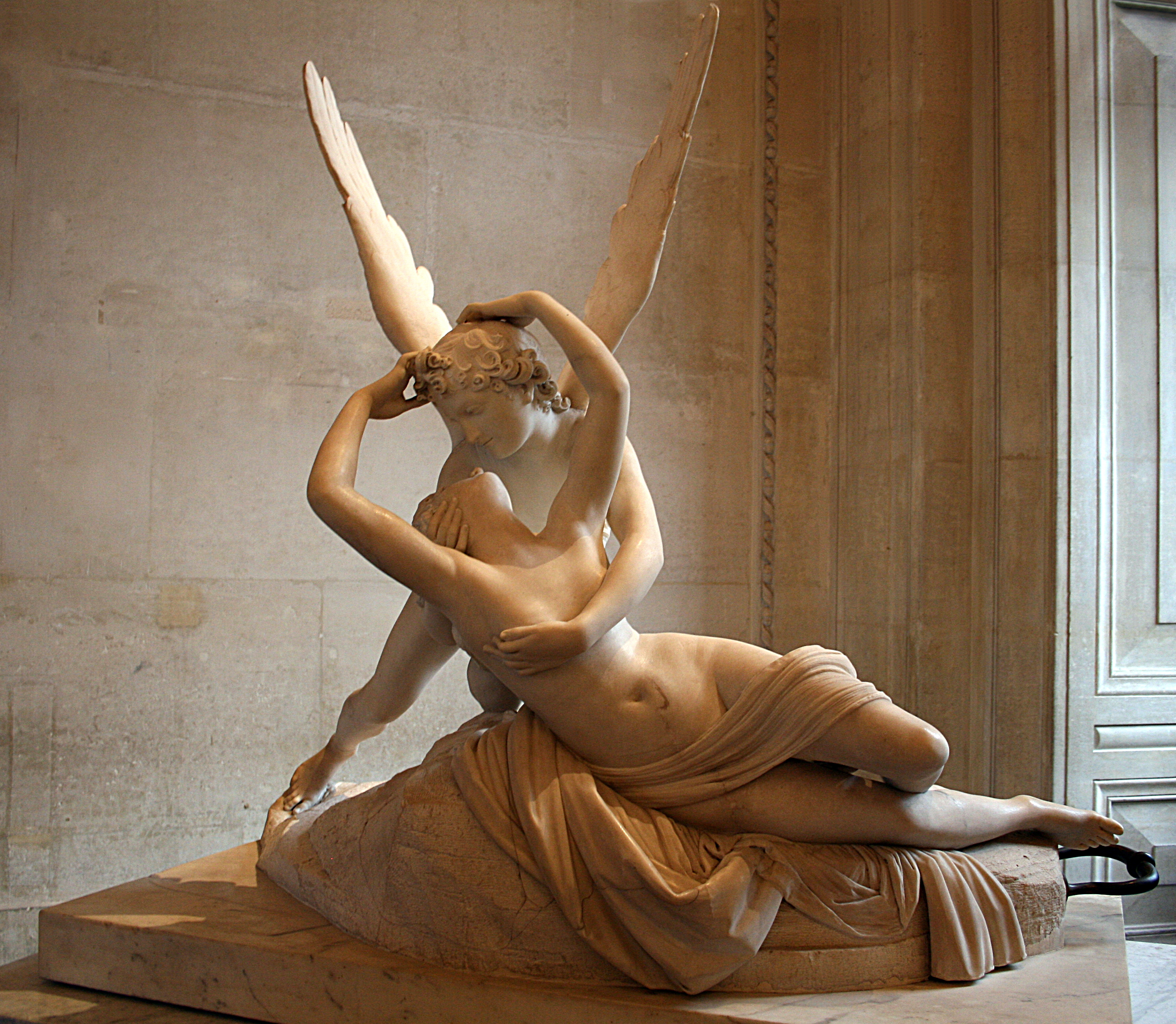 Psyche revived by the kiss of Love (H. 5 ft. 1 in., W. 5 ft. 6 in., D. (3 ft. 3 ¾ in.). Marble statue, Venetian work produced between 1787 and 1793 by Antonio Canova for the English colonel John Campbell, acquired in 1801 by Joachim Murat. Currently kept at the Louvre in Paris (ref: MR 1777) and photographed there on December 09, 2011.